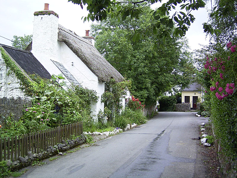 Oxwich, Gower, South Wales, UK